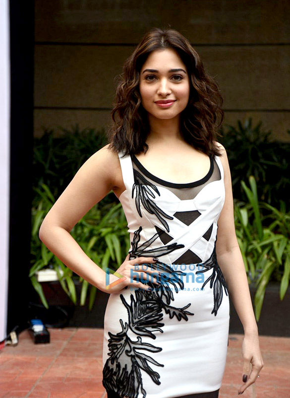 Tamannaah at the first look launch of ‘Bahubali 2 The Conclusion’ at MAMI 18th Mumbai Film Festival